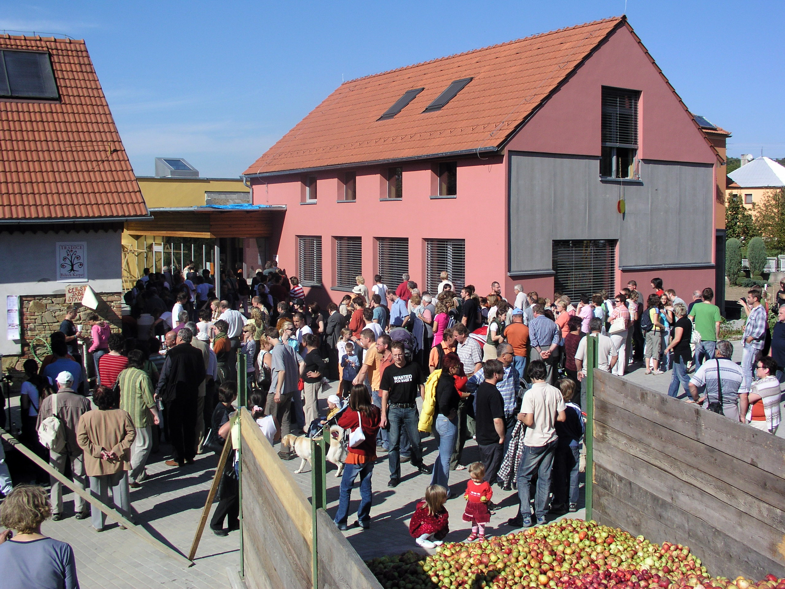 Apple fest in Hostětín